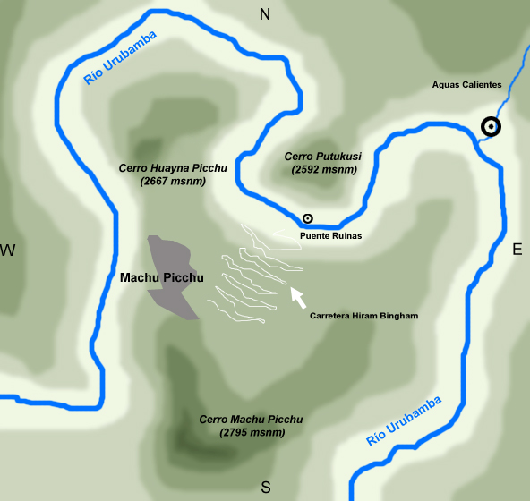 Location Map of Machu Picchu over the hills Machu and Huayna Picchu and Aguas Calientes.